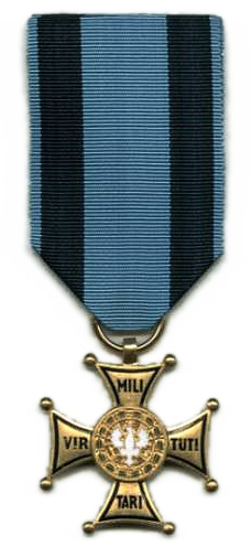 Gold class of Virtuti Militari war order